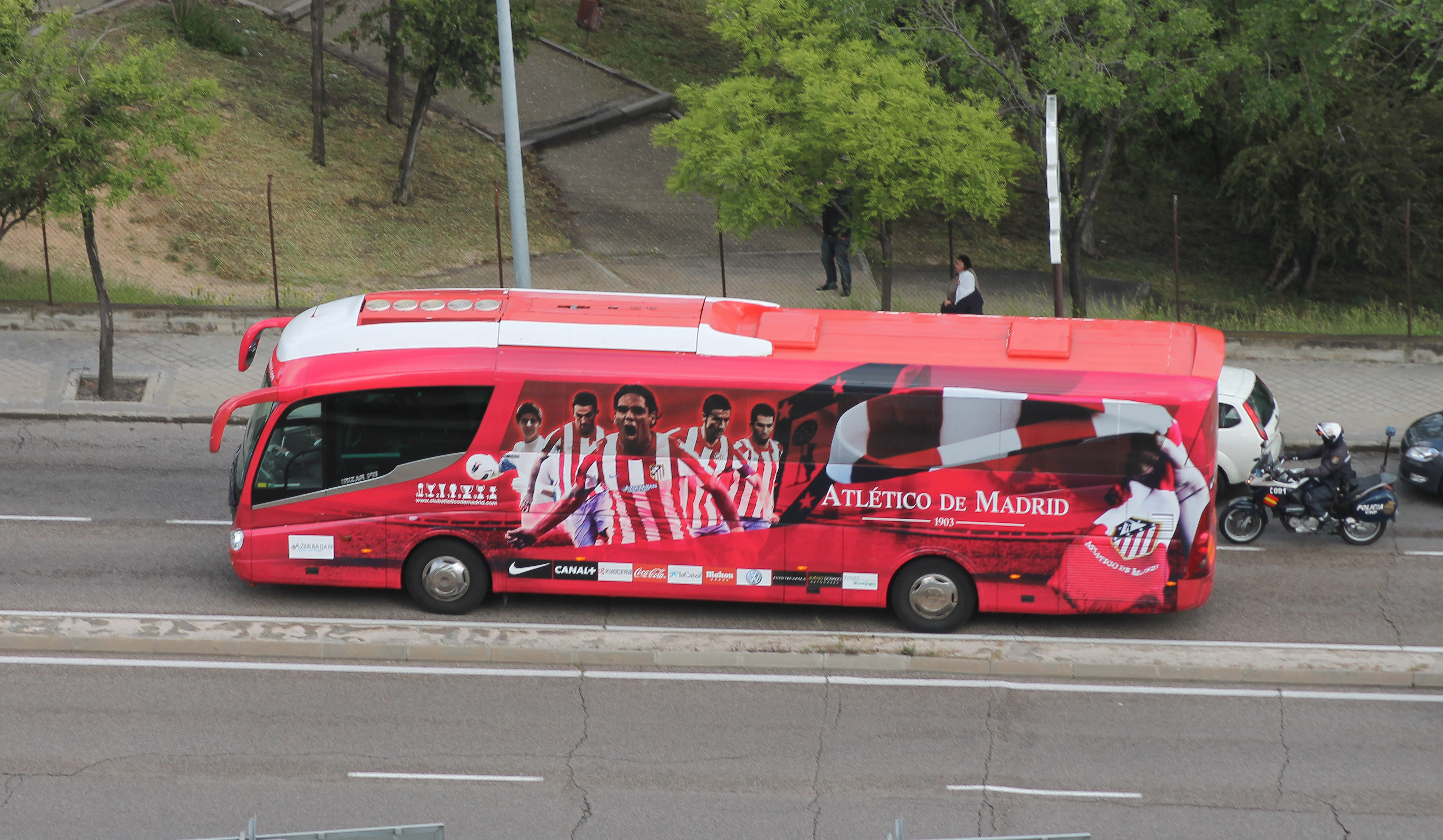 The Atlético de Madrid's bus in Fuencarral-El Pardo District in Madrid (Spain), going towards Santiago Bernabéu Stadium to play the Copa del Rey final.